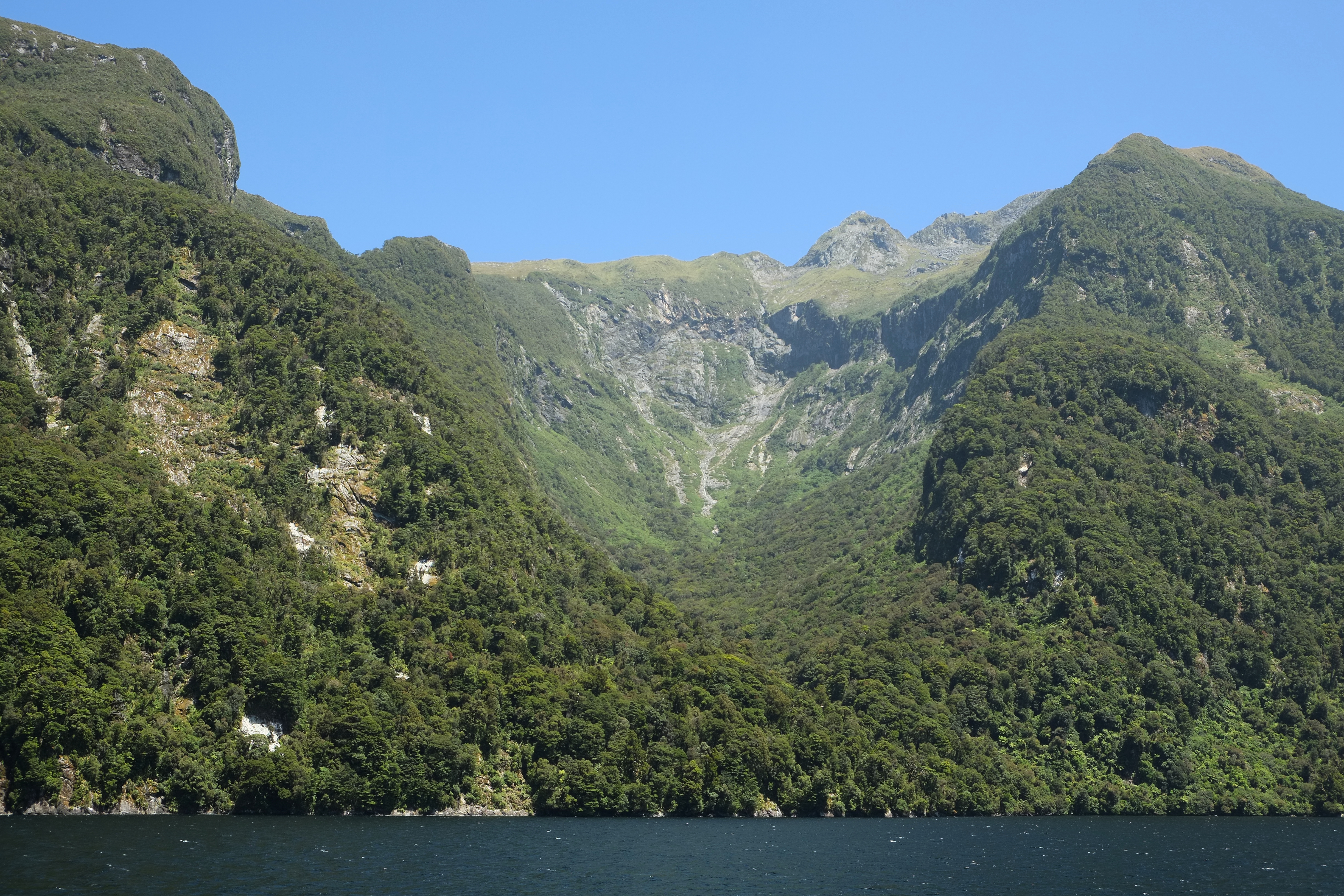 Hanging valley into Doubtful Sound